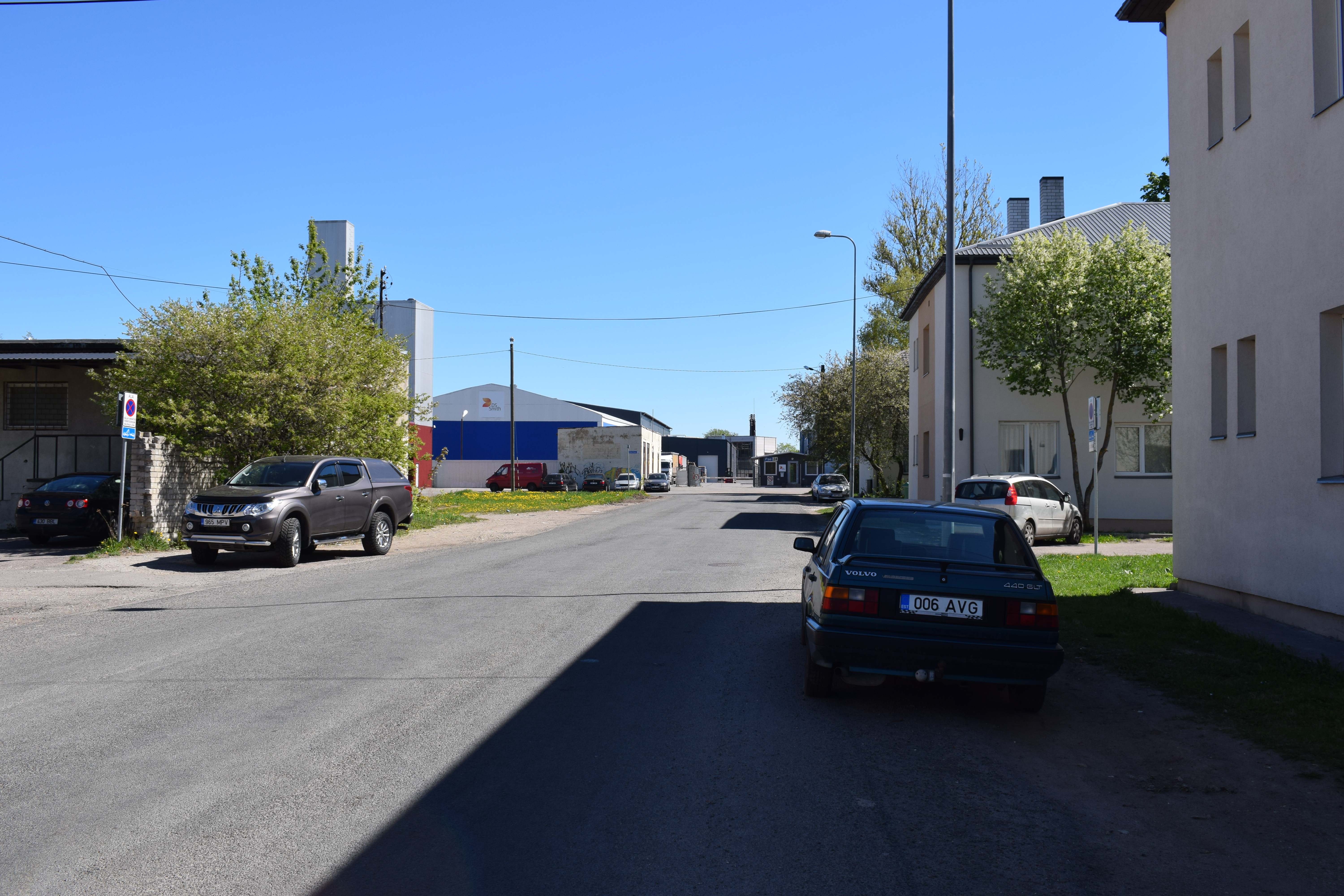 Kiive tänav